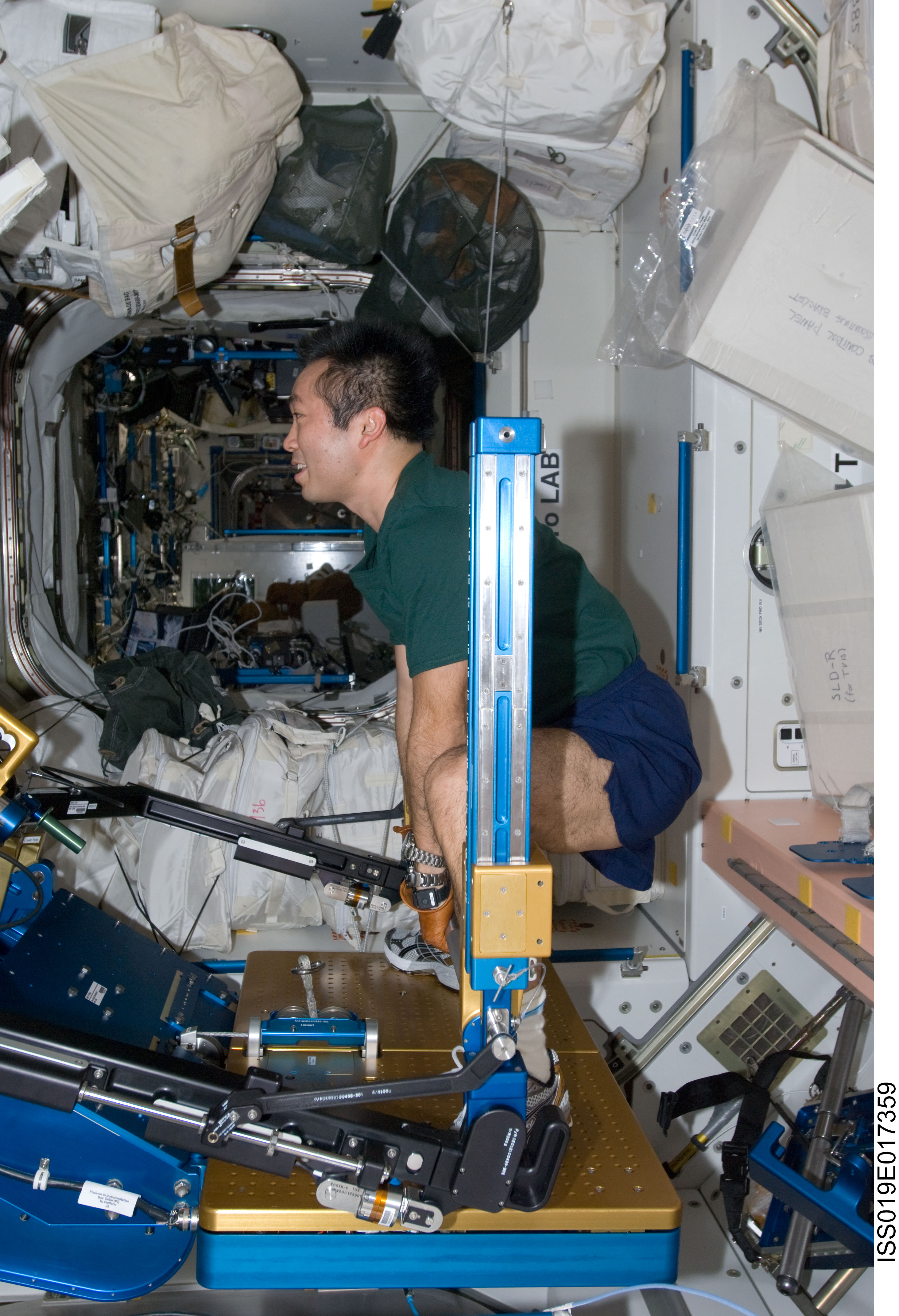 Japan Aerospace Exploration Agency (JAXA) astronaut Koichi Wakata, Expedition 19/20 flight engineer, exercises using the advanced Resistive Exercise Device (aRED) in the Unity node of the International Space Station.